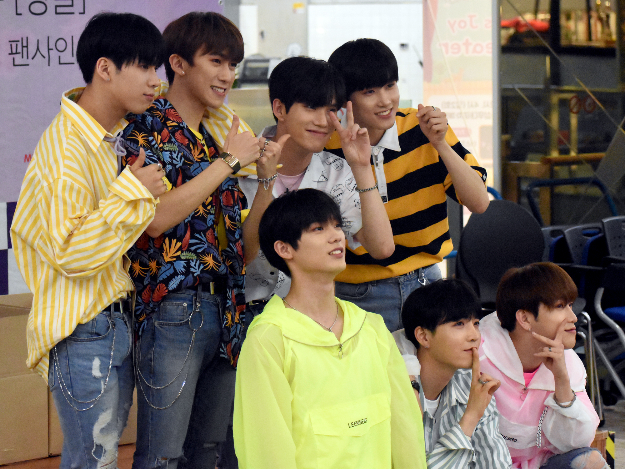 Target at a fansign event at the Gimpo International Airport branch Lotte Mall on July 15, 2018